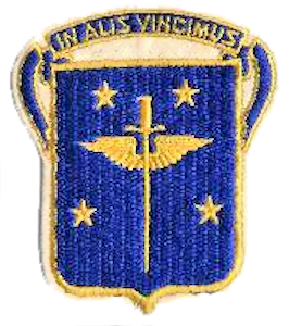 19th Bombardment Group - Emblem